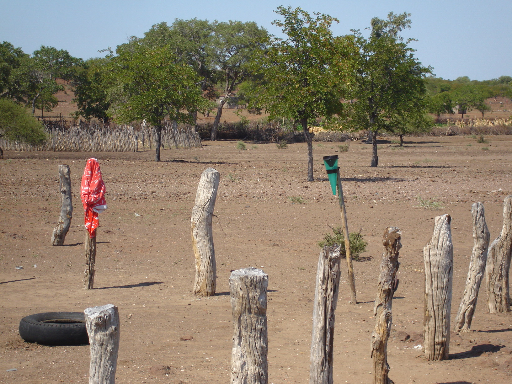 Rain gauge in a village in Masera, Zimbabwe